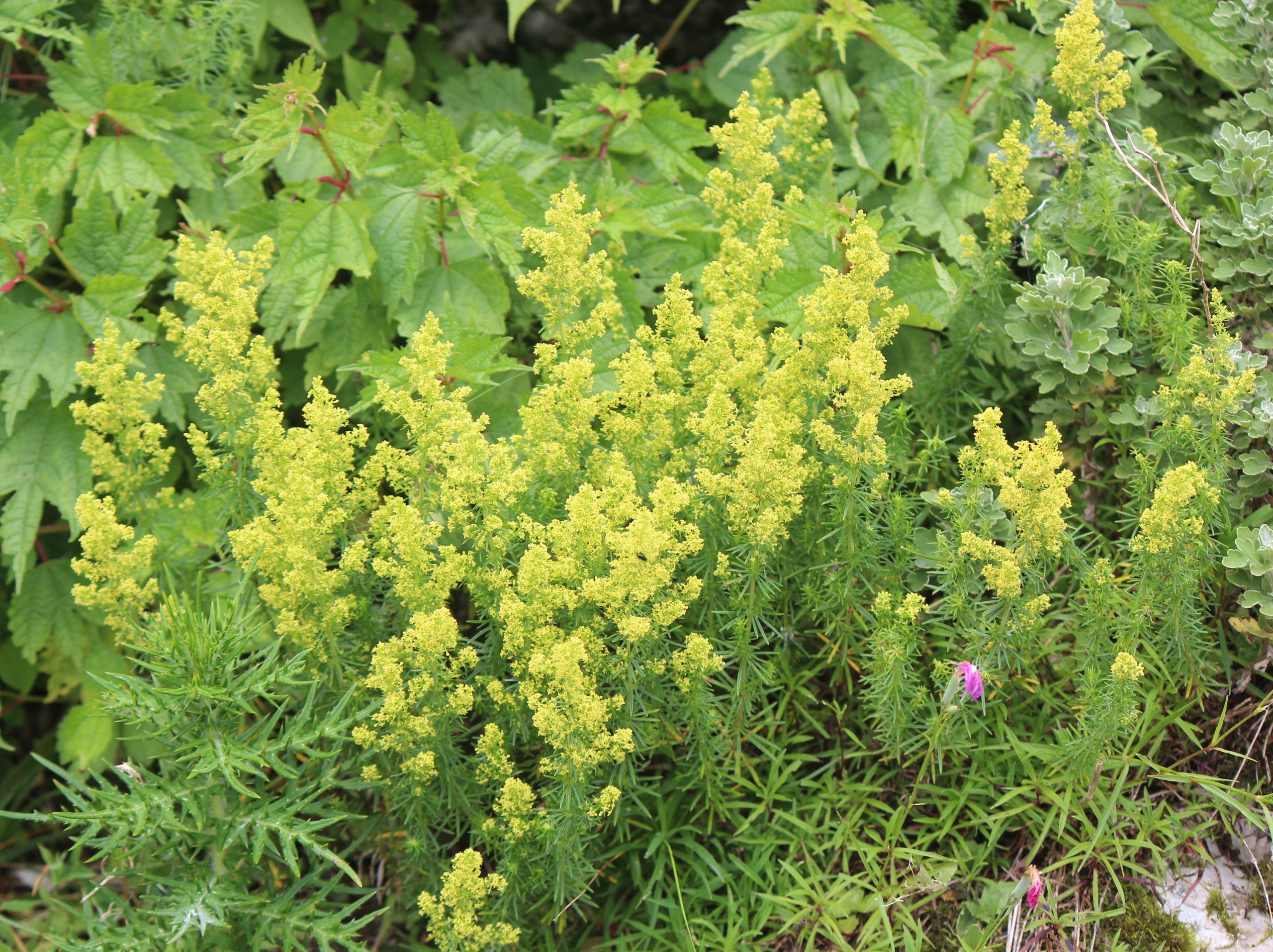 Galium verum var. asiaticum in Mount Ibuki